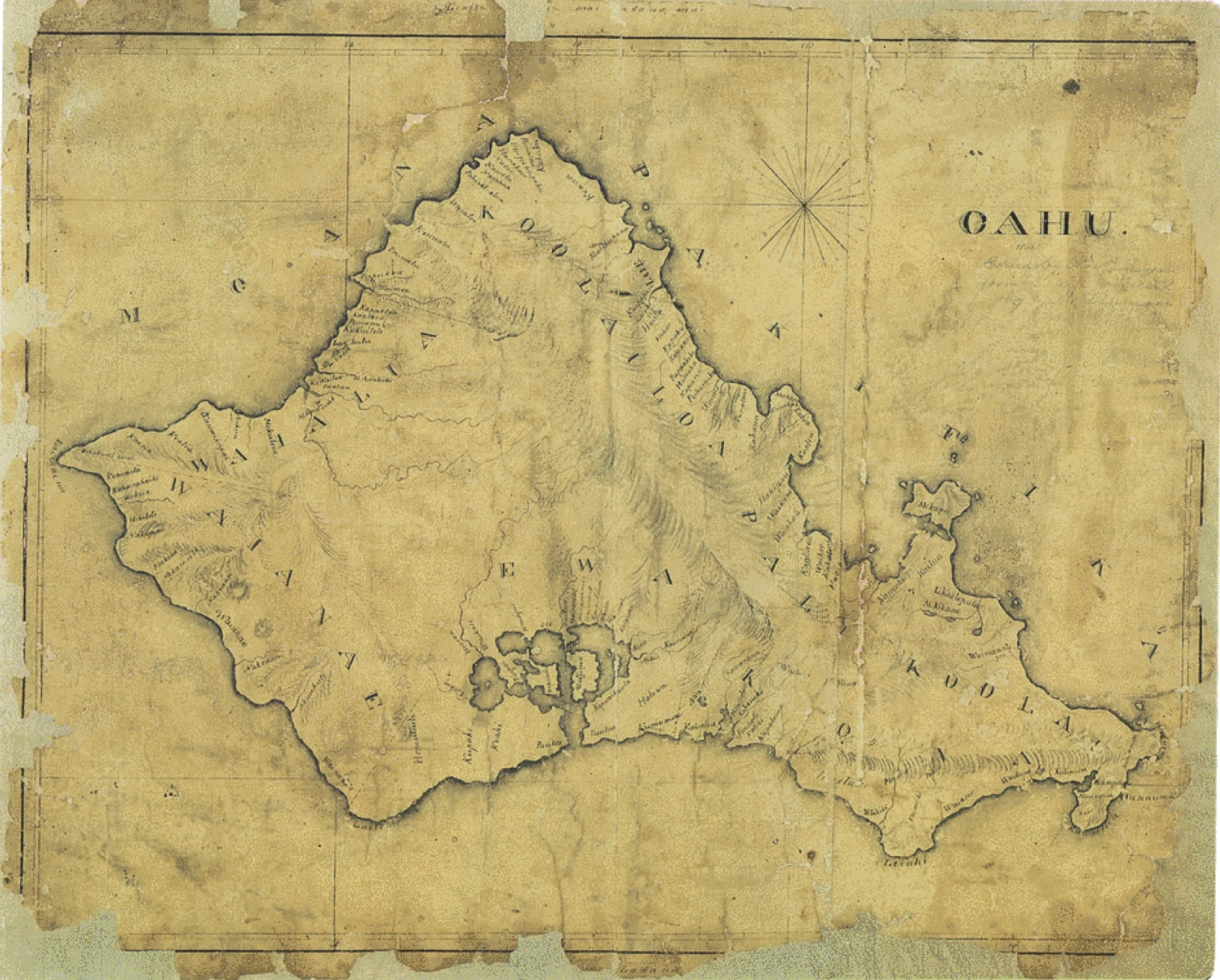 Island of Oahu, Ursula Emerson, 1833. Mrs. Emerson's map of Oahu, as do her other maps, reflects a more accurate knowledge of the island than was indicated on printed maps available at the time. Her husband John later displayed considerable skill in surveying, so it is conceivable that he may have contributed to this map.